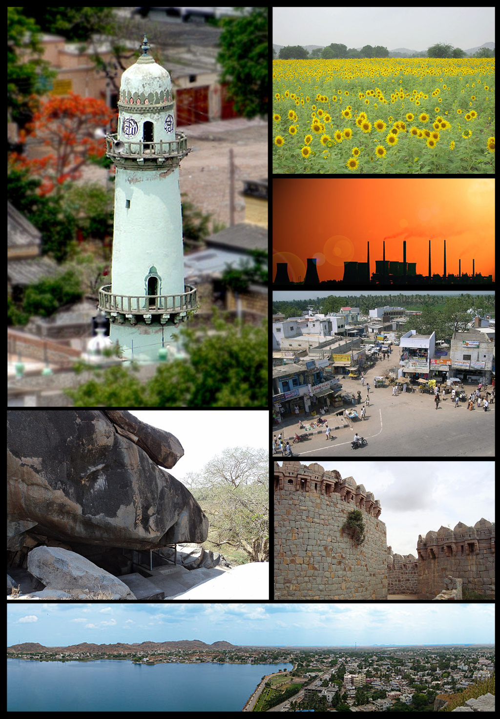 Montage of Raichur District with Images from Wikimedia Commons